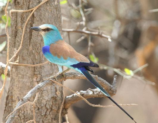 Abyssinian Roller in Saly, Senegal.